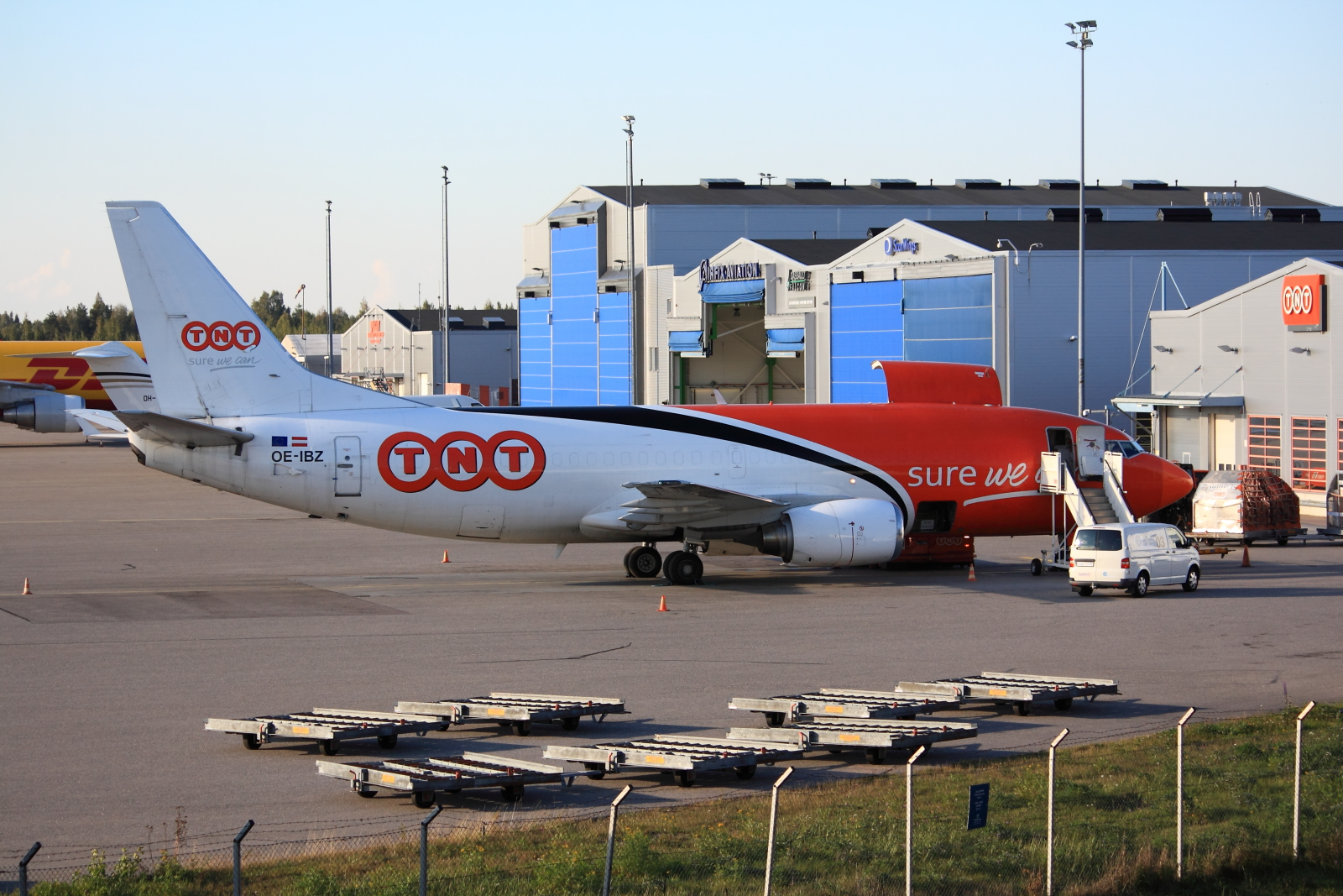 Boeing 737-34S(SF) cargo aircraft (OE-IBZ) of TNT loading at Helsinki-Vantaa Airport on 8 September 2014.